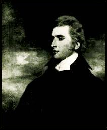 Portrait of George FitzRoy, 4th Duke of Grafton (1760-1844)